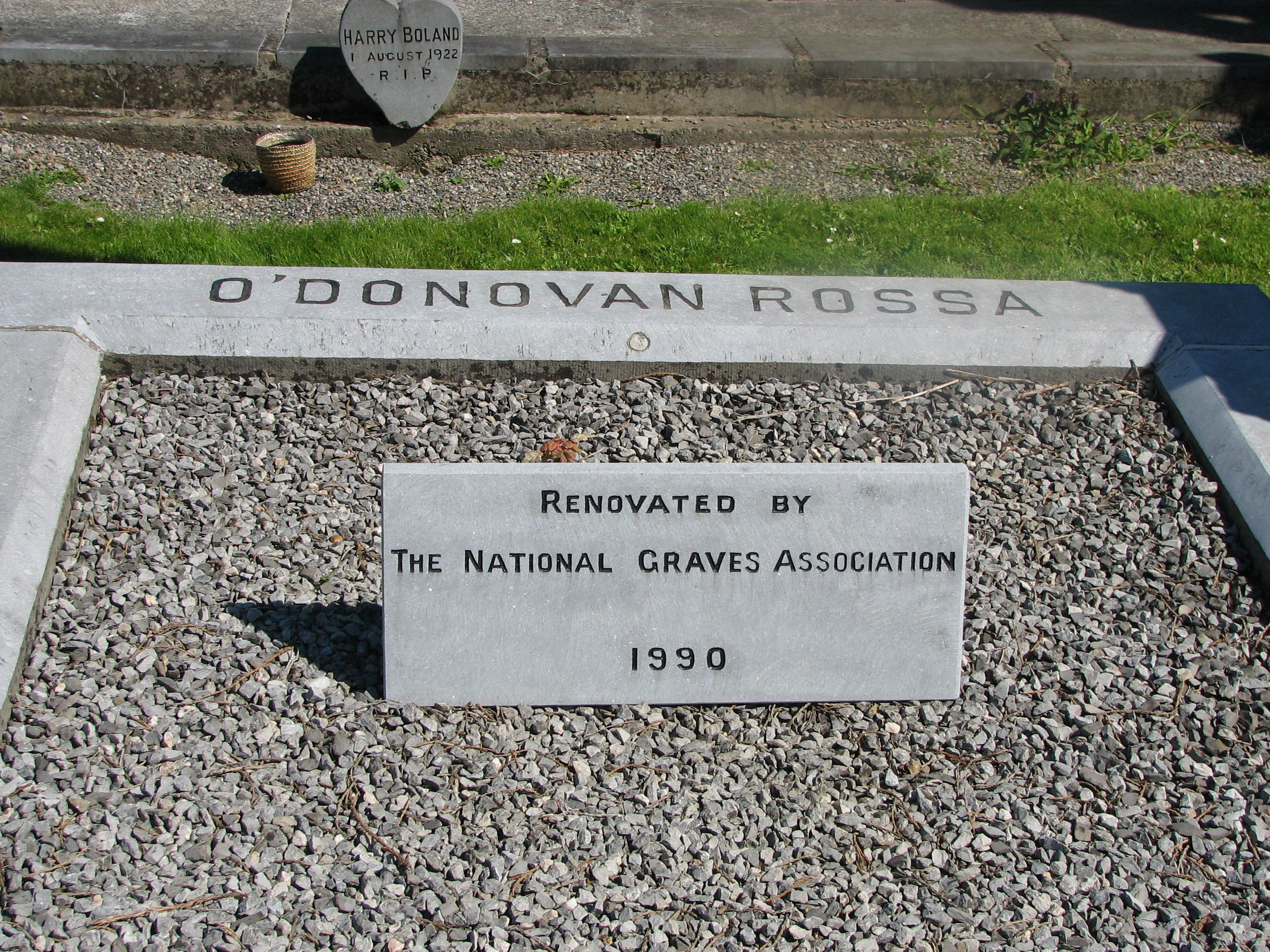 The Picture was taken in Glasnevin Cemetery, Dublin.